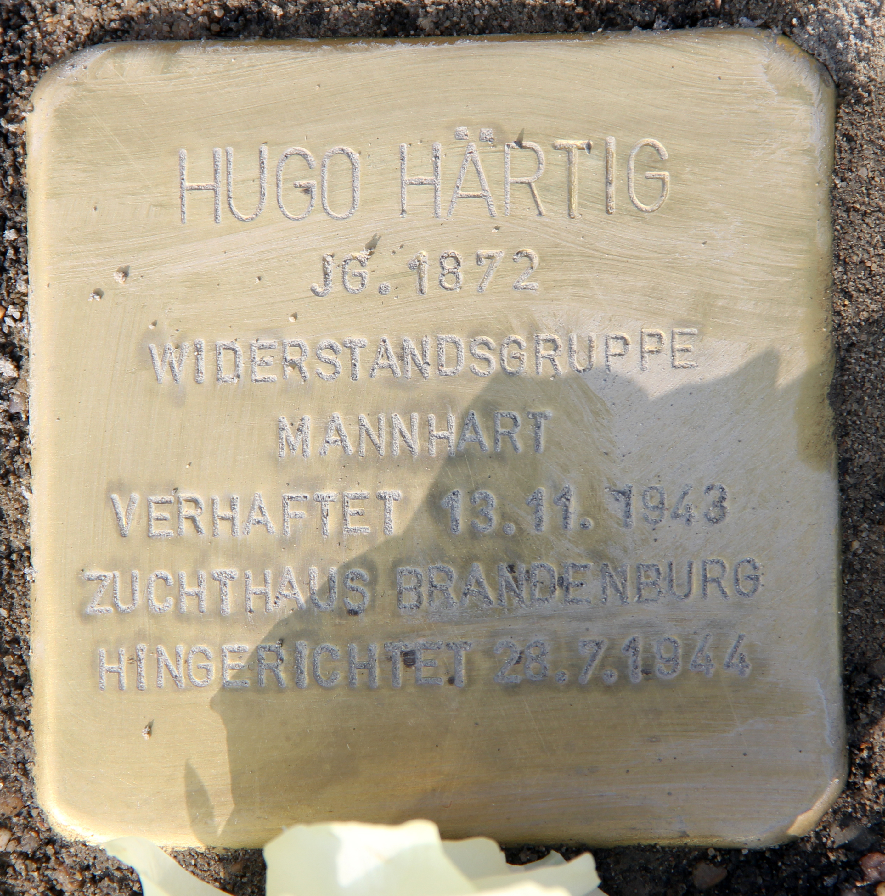 "Stolperstein" (stumbling block), Hugo Härtig, Berliner Straße 26, Berlin-Tegel, Germany